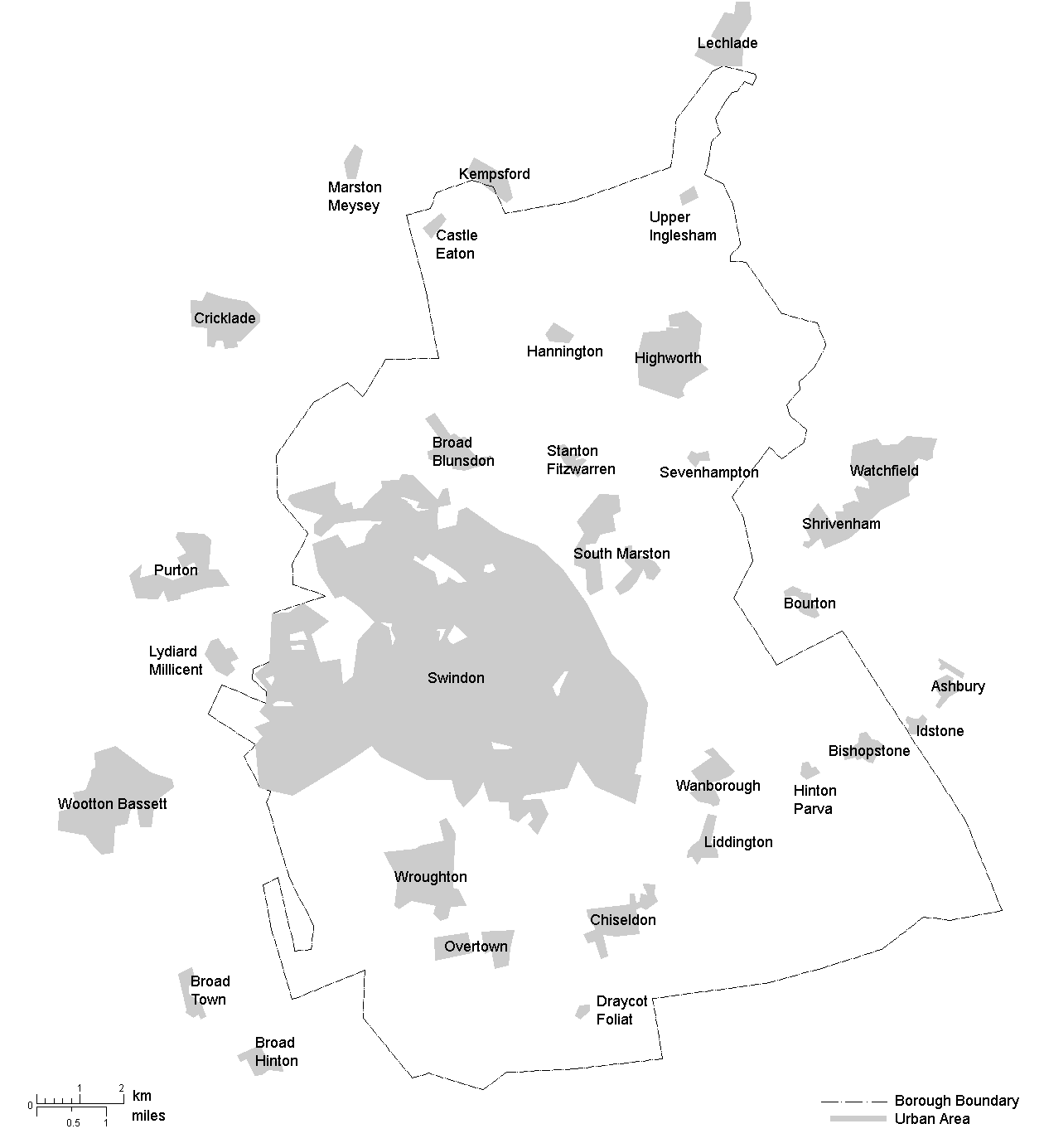 Outline map of the Borough of Swindon with Urban Areas shaded and Placenames